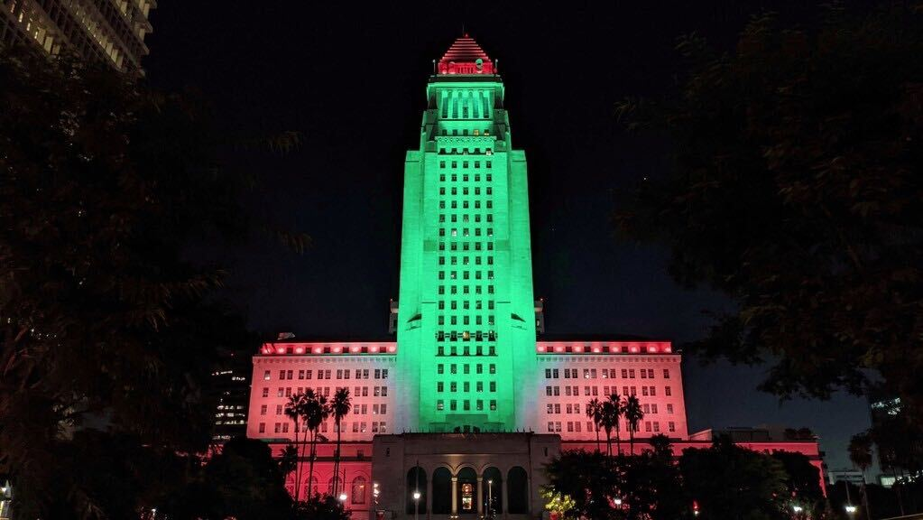 Lighting the night for our Sister City of Beirut, as we send our prayers and thoughts of healing to Lebanon.